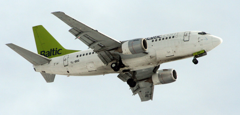 airBaltic Boeing 737-500 (YL-BBQ) landing at Vilnius airport (VNO)